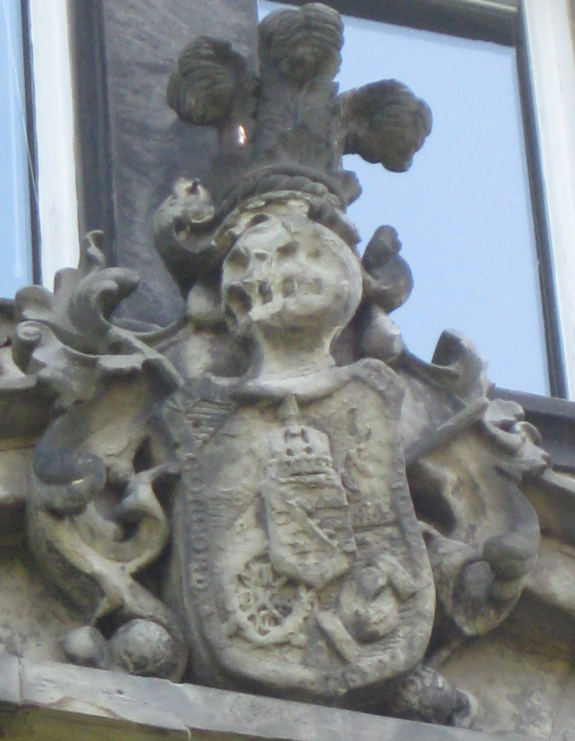 Coat of arms of Corps Saxonia Göttingen